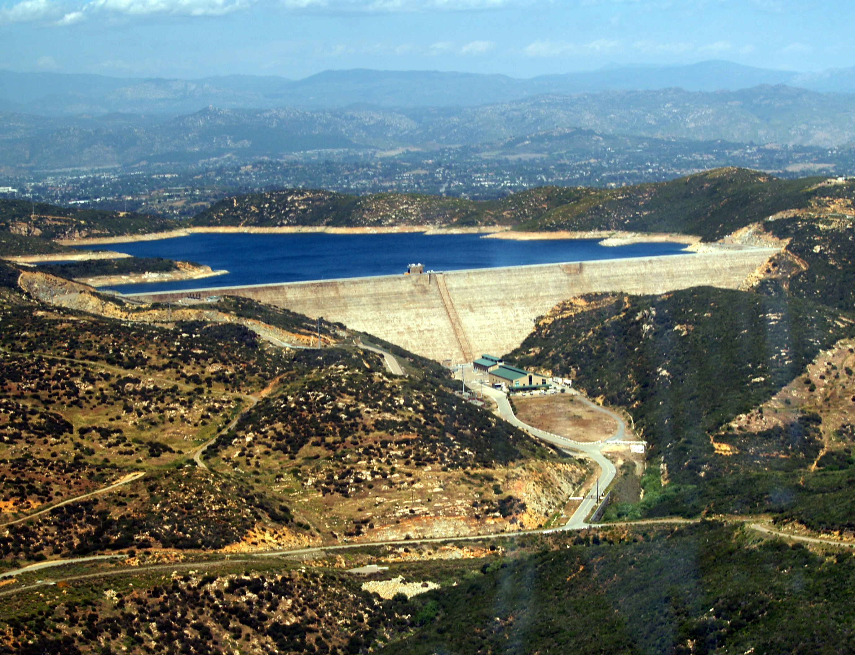 Photo taken from a helicopter of the Olivenhain Dam and reservoir by Phil Konstantin